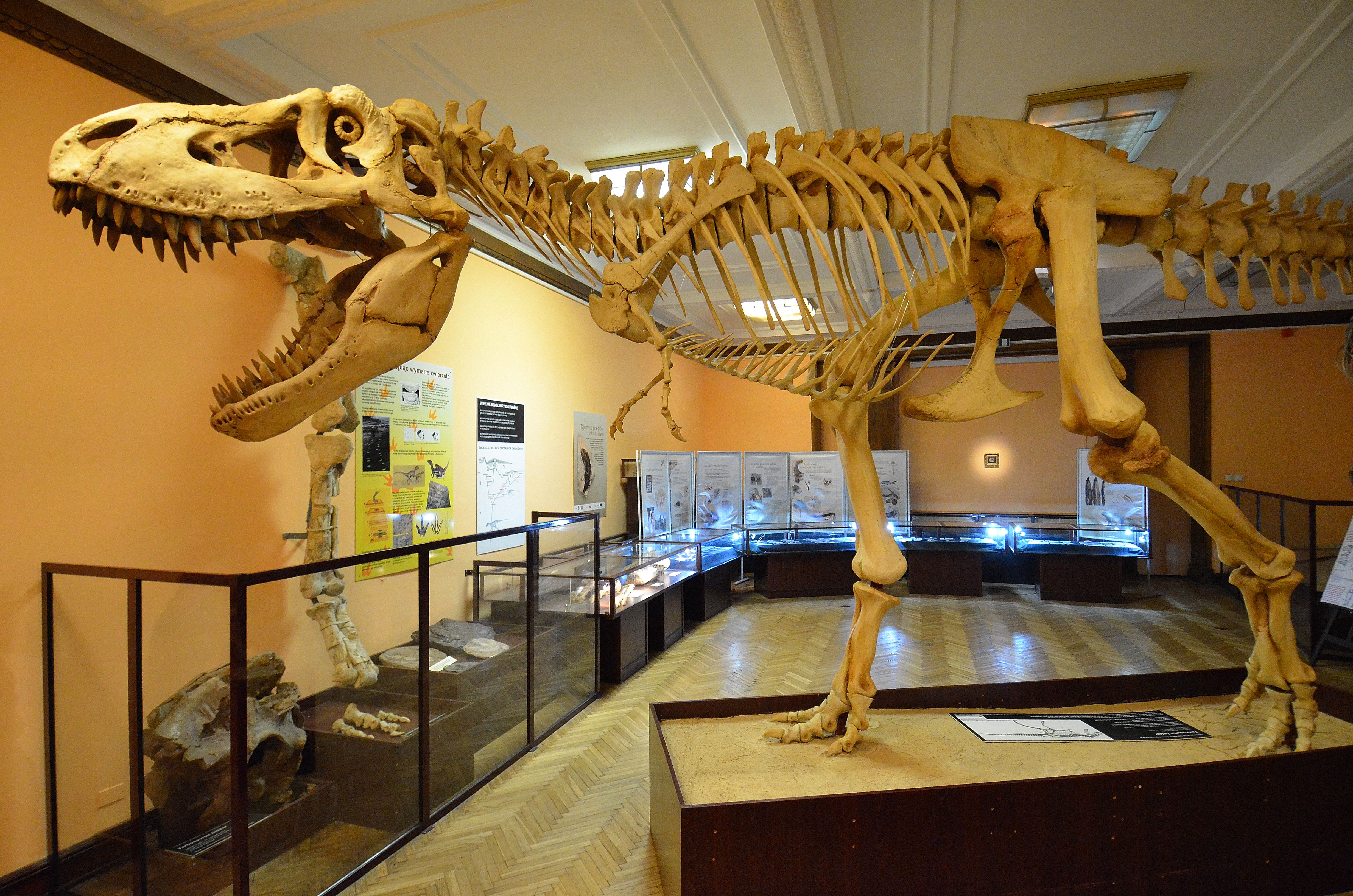 Tarbosaurus bataar skeleton. Museum of Evolution in Warsaw